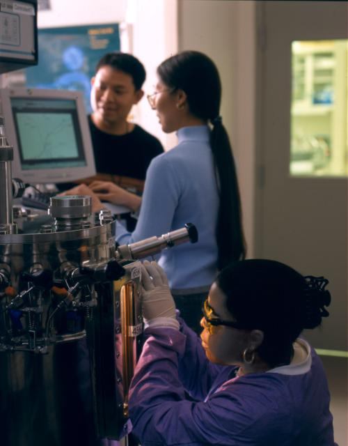 Scientists working in NIAID's Malaria Vaccine Development Unit. In the foreground, a biologist checks culture volume in a fermenter growing Pichia pastoris yeast. This culture medium expresses a malaria antigen that the lab is evaluating for possible vaccine development. Credit: NIAID